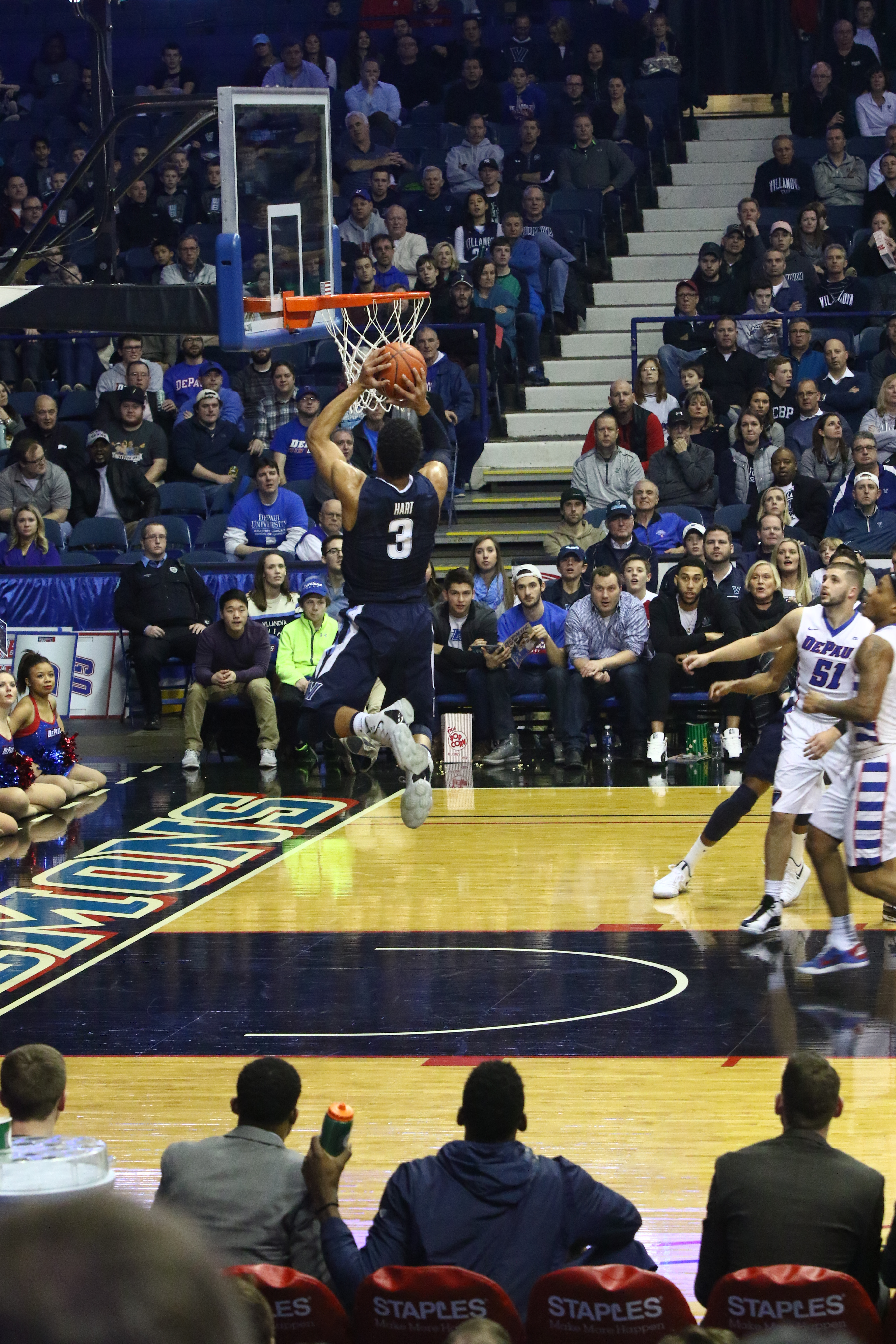 Josh Hart for the w:2016–17 Villanova Wildcats men's basketball team at Allstate Arena